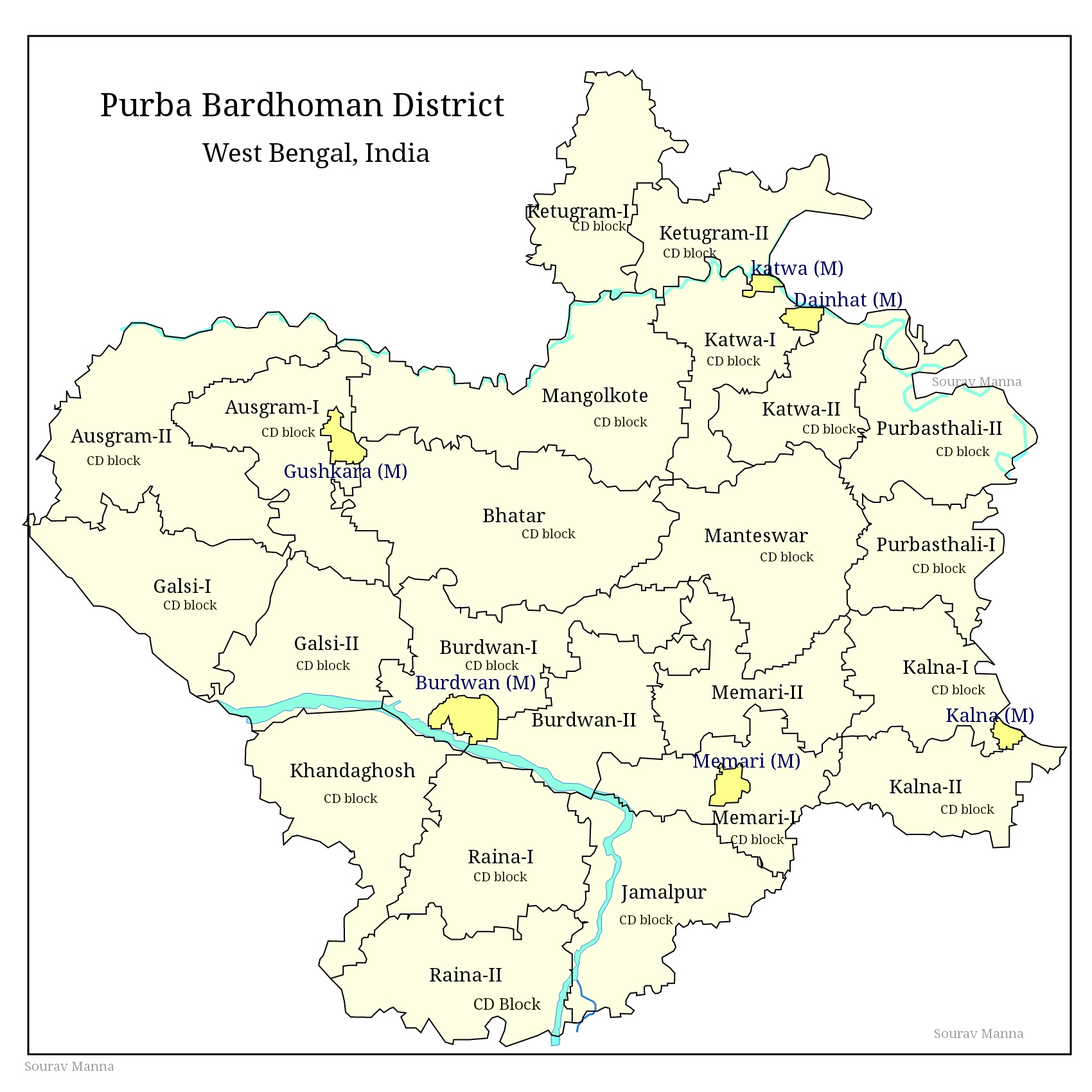 Map of purba bardhaman district sowing municipality, CD blocks